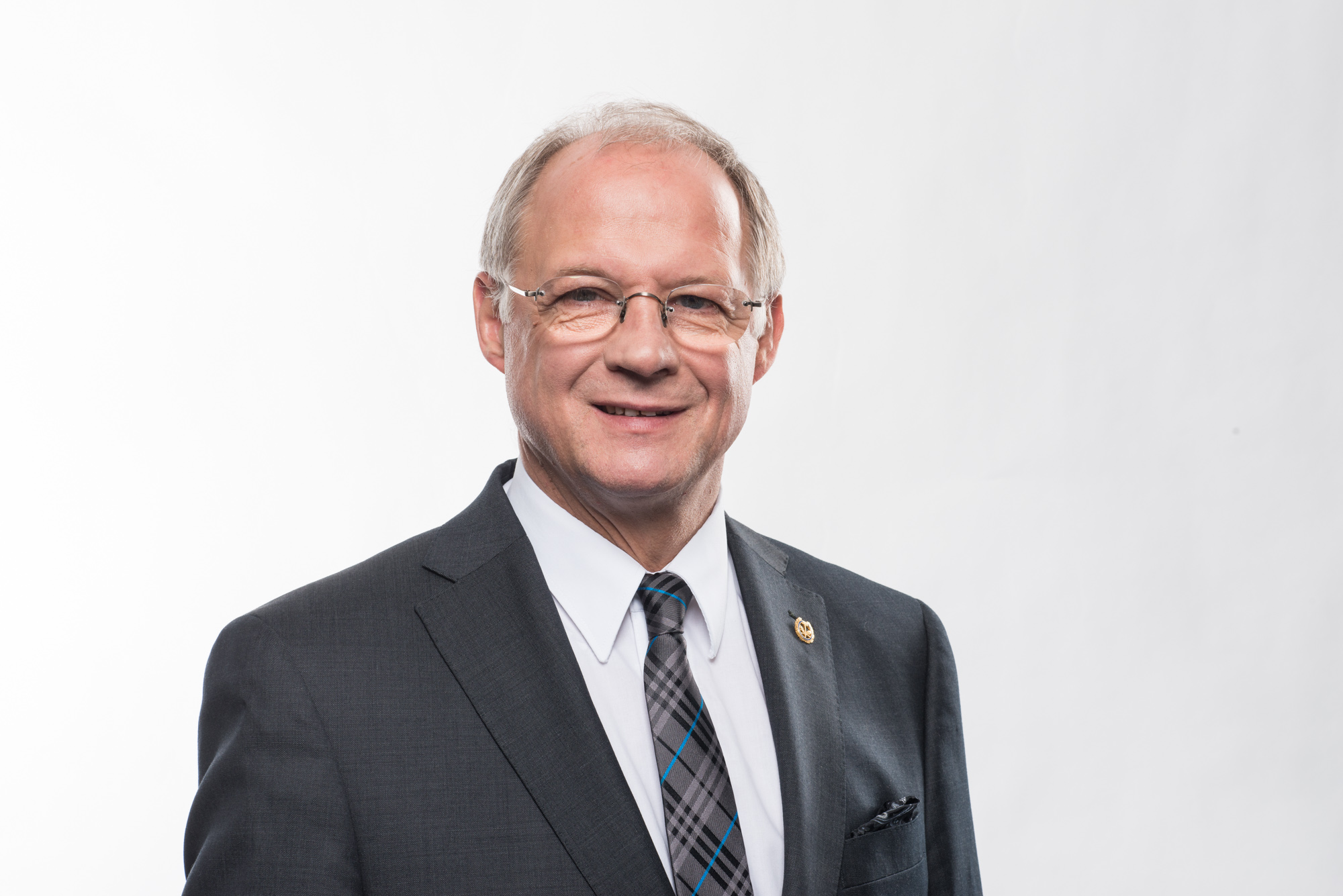 Bernd Wegner, German politician (CDU), photo: Peter Kerkrath